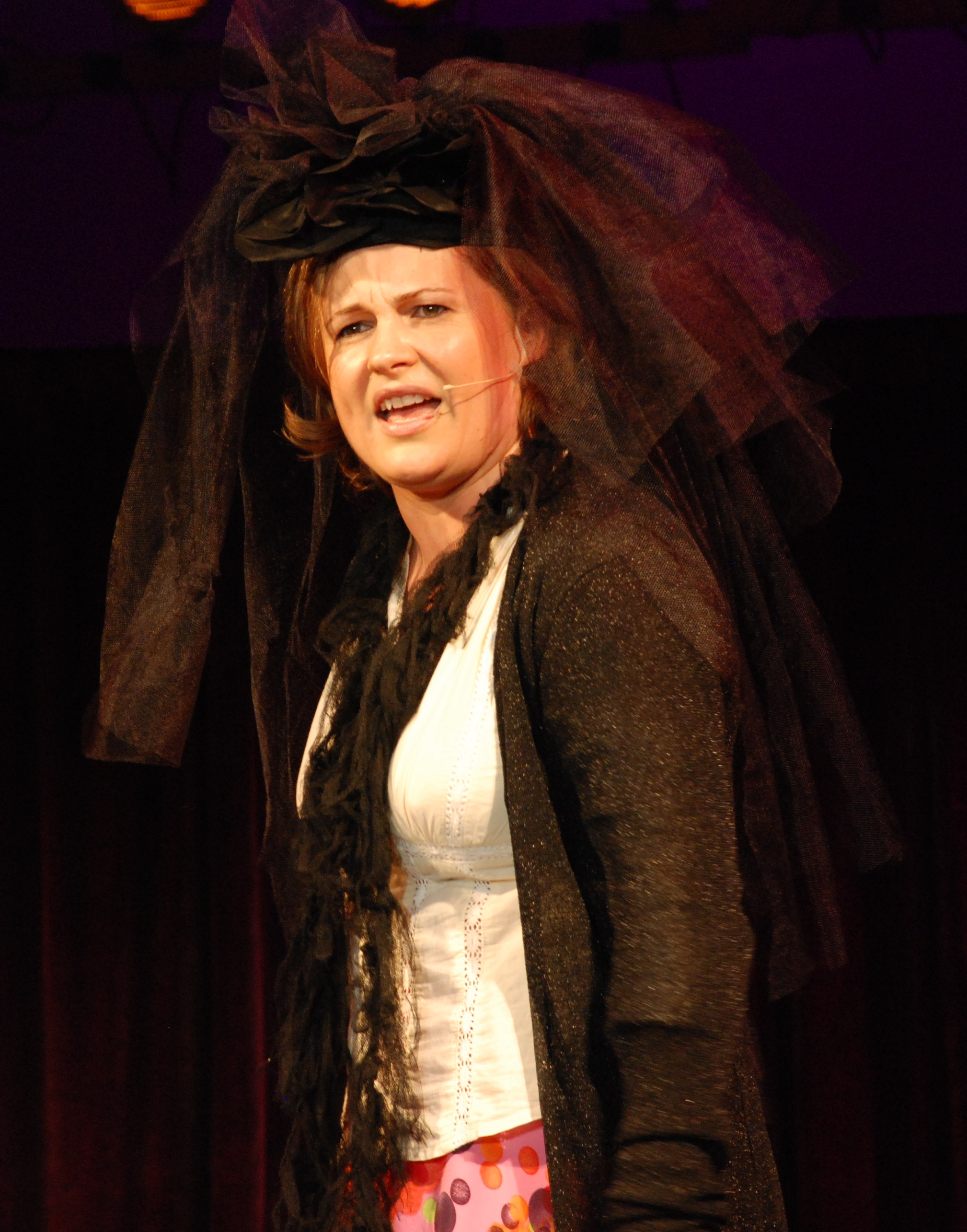 Joanna Kołaczkowska of Kabaret Hrabi during her performance on the fourth day of the 2007 Festival of Cabaret in Zielona Góra.